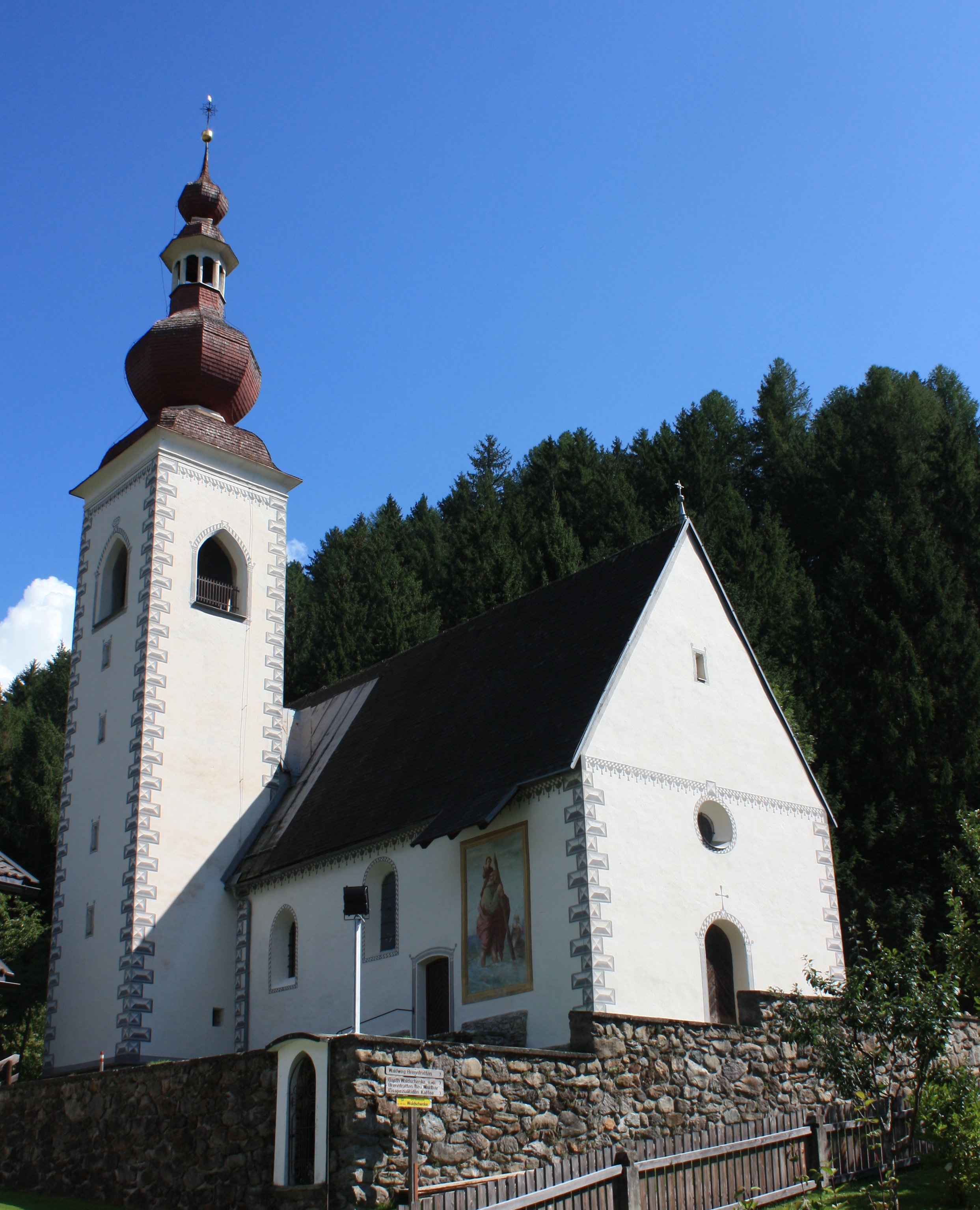 Subsidiary church Saint Margareta Locality: Lainach Community:Rangersdorf